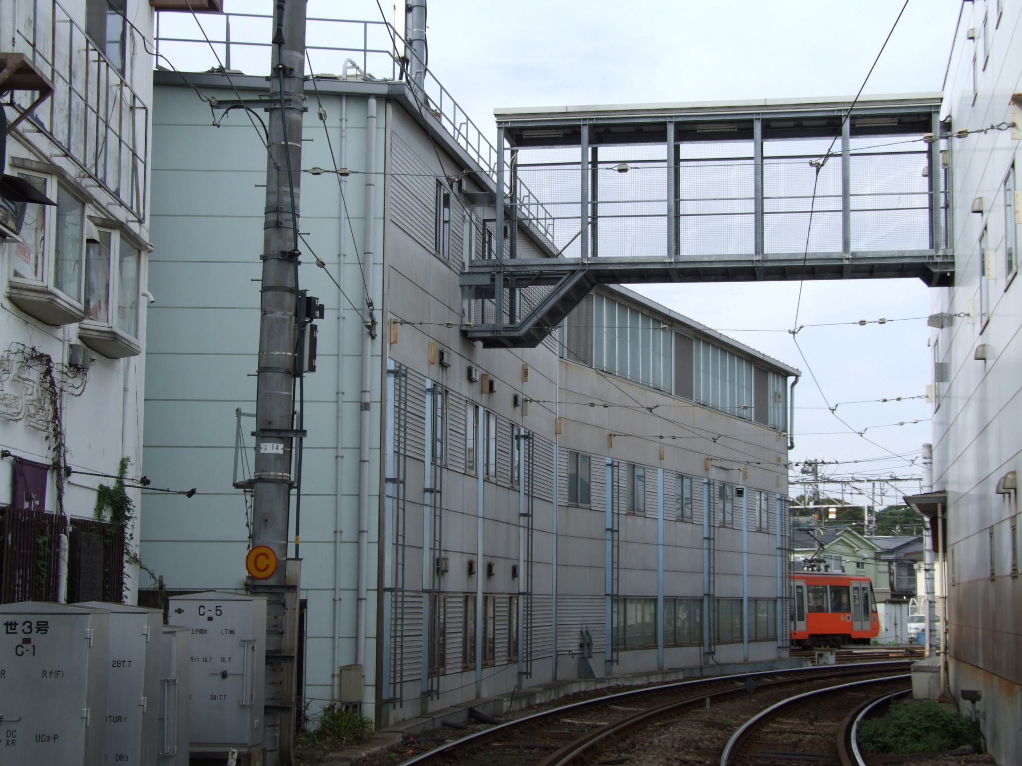 Tokyo Kyuko Electeric Railway Kamimachi Yard